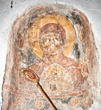 Saint George Church in Martolci.